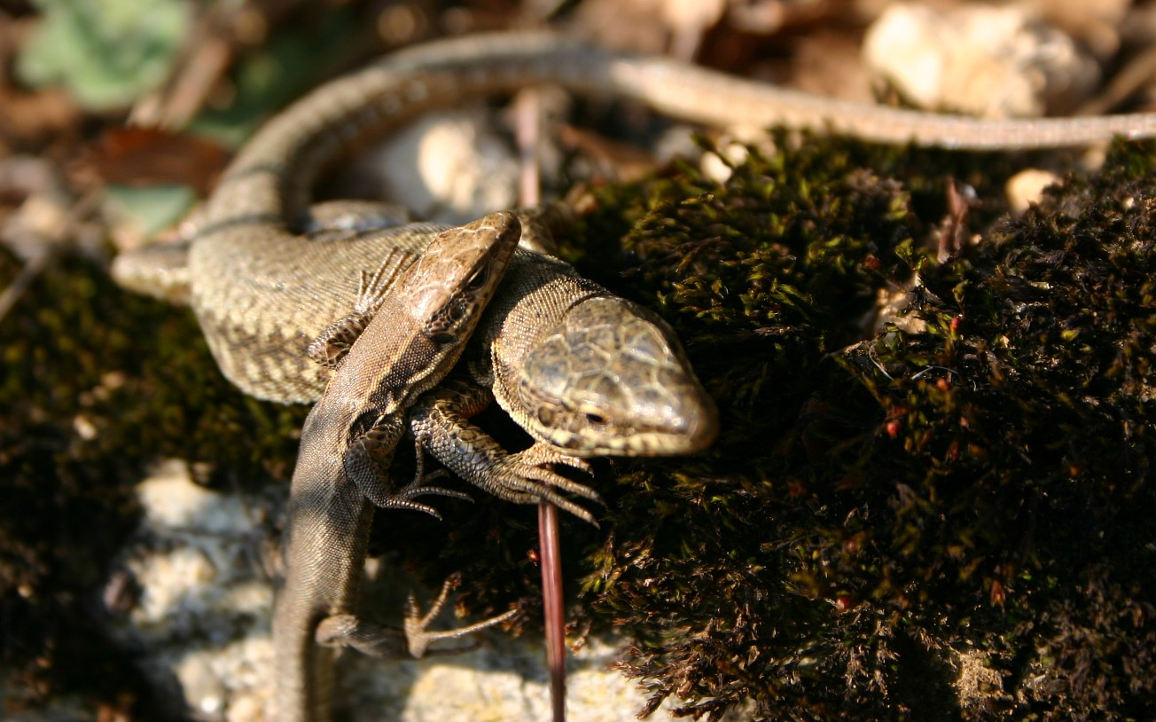 Lizards end of March 2004 in Hornussen (Switzerland). Author: Stefan Wernli